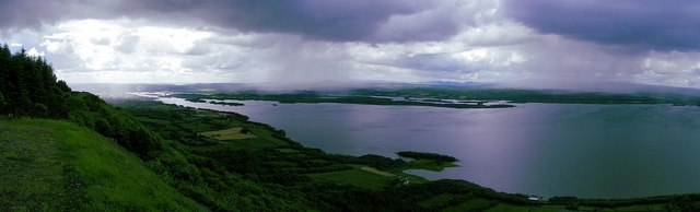 View of Lower Lough Erne from Cliffs of Magho